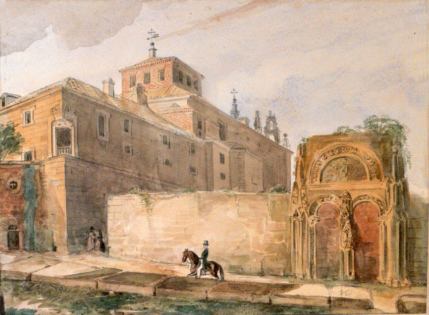 Exterior of the Convent of Carmen de Ávila